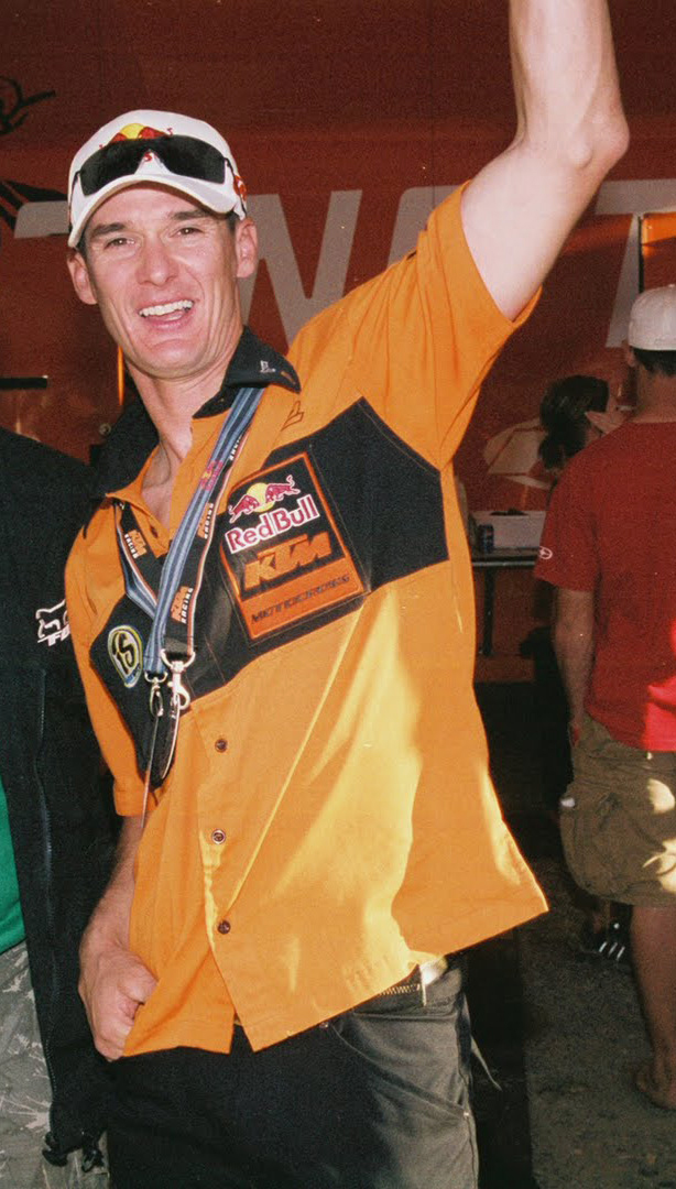 Hanging with Stefun as he likes to be called. This is 10 time world motocross champion Stefan Everts of Belgium. (original text)